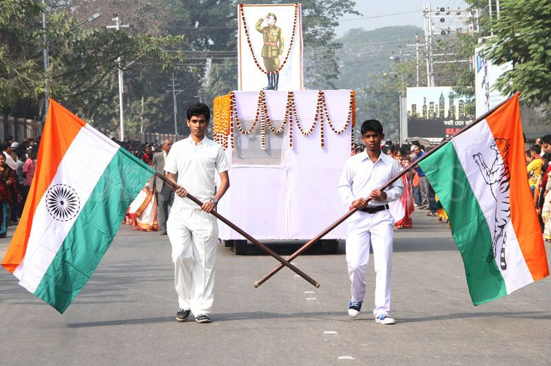 Student leading procession on the streets of agartala